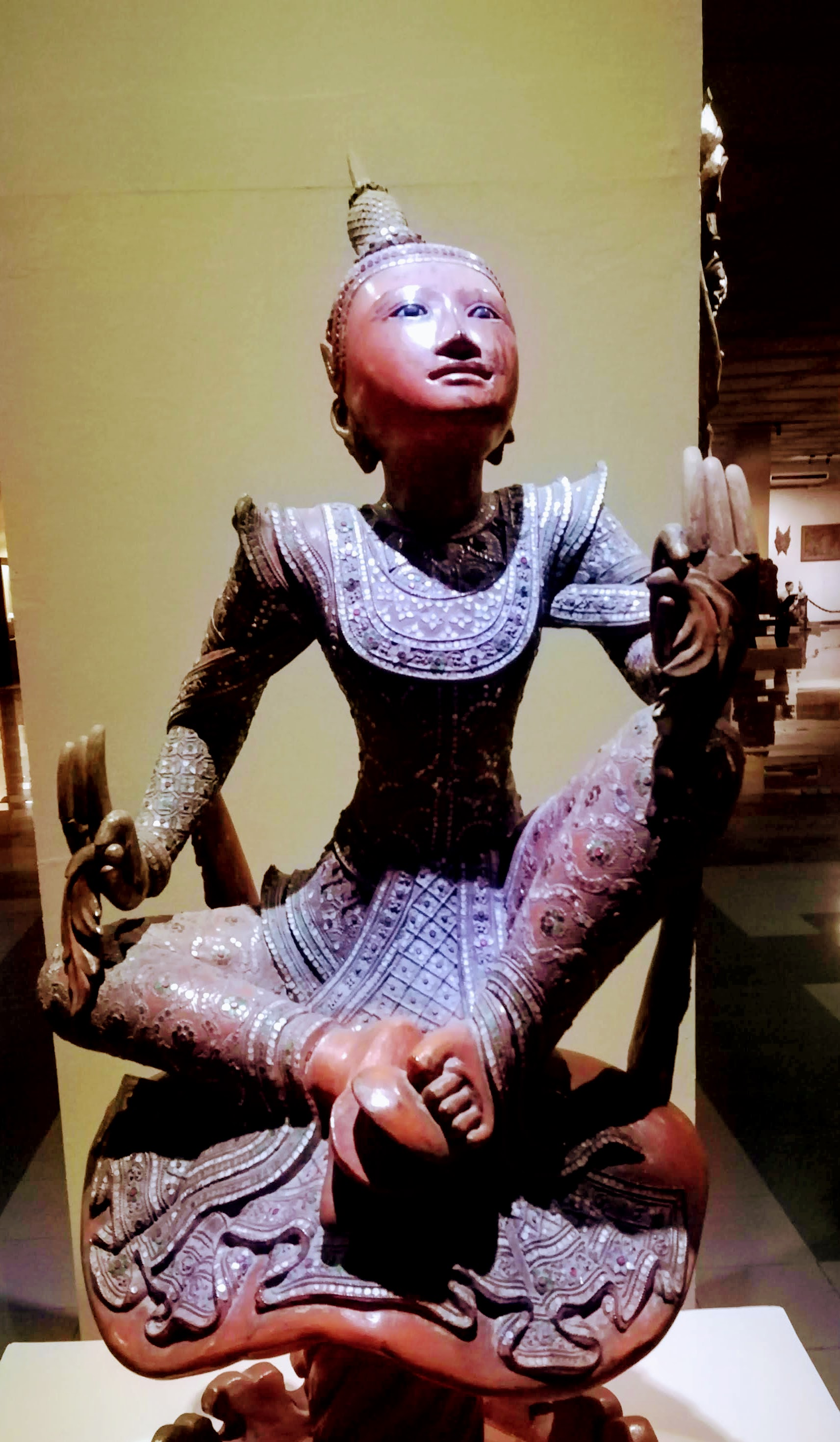 Wooden statue at the National Museum Yangon